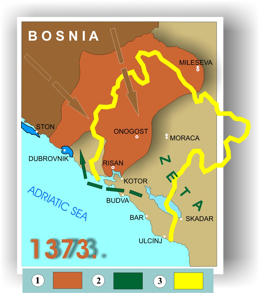 Serbian Prefect Nicholas Altomanović (Vojinovic) lost their territories in conflict with a coalition of: Prince Lazar of Serbia, the Bosnian ban Tvrtko and King Ludwig I (ban Gorjanski). 1. The expansion of parts of Bosnia Nicholas Altomanović possession, after his defeat 1373rd year; 2nd Temporarily taking Dračevica, Konavli and Trebinje by Zeta (Balsic); 3rd Today's borders of Montenegro. (Group of authors: "History of Montenegro", Titograd 1970th year, Book II, Volume 2)